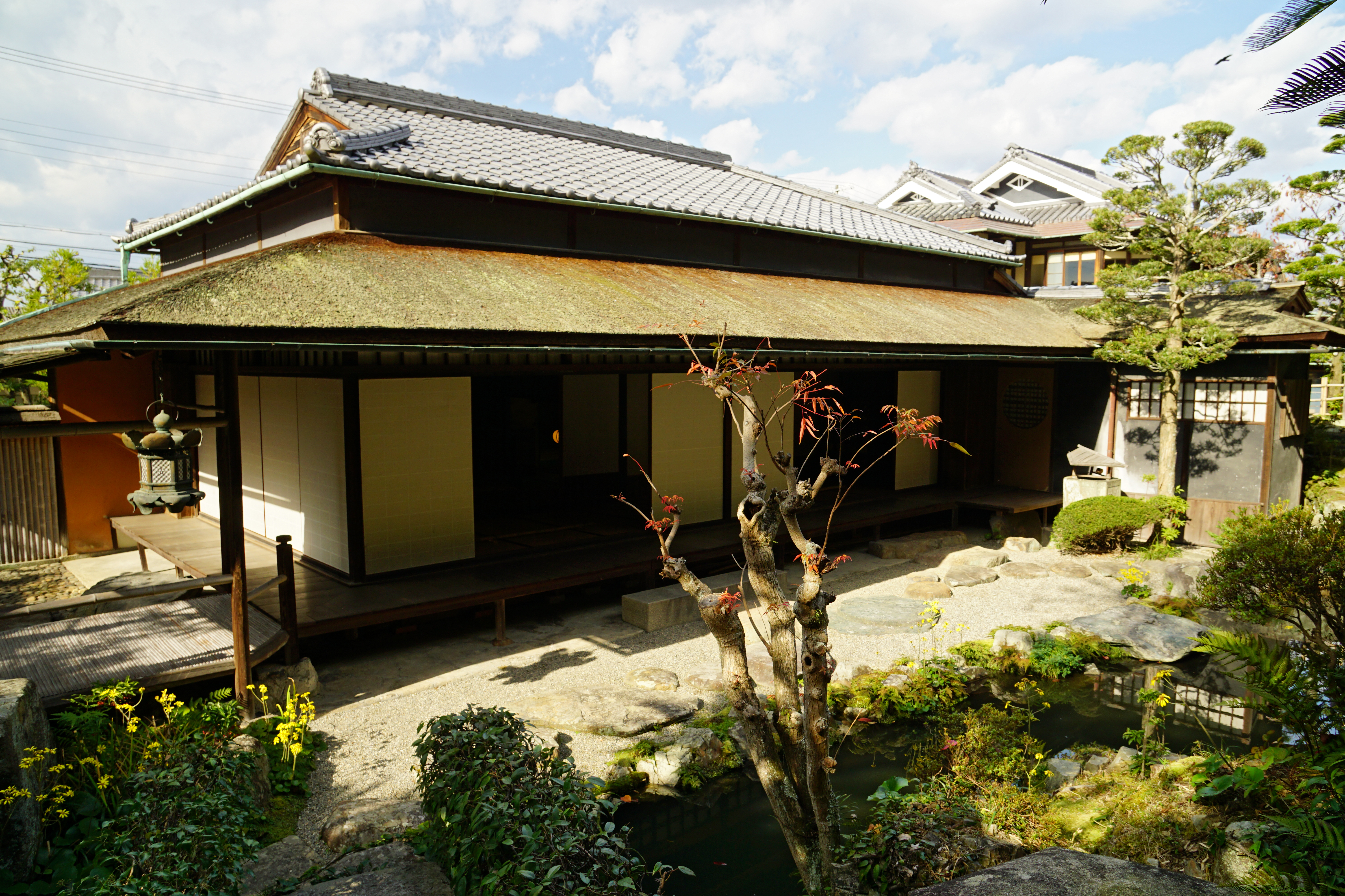 Tabuchi Garden is Japan's "Places of Scenic Beauty" in Akō, Hyogo prefecture, Japan.